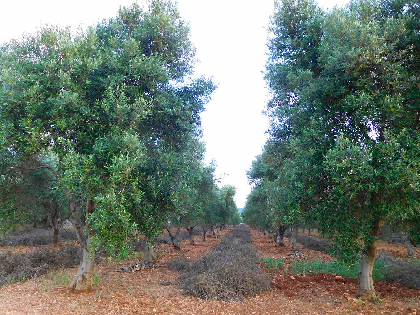 Olive Grove prunings in neat rows near Ostuni, Puglia, South Italy. Olive trees are pruned annually to keep the trees manageable.